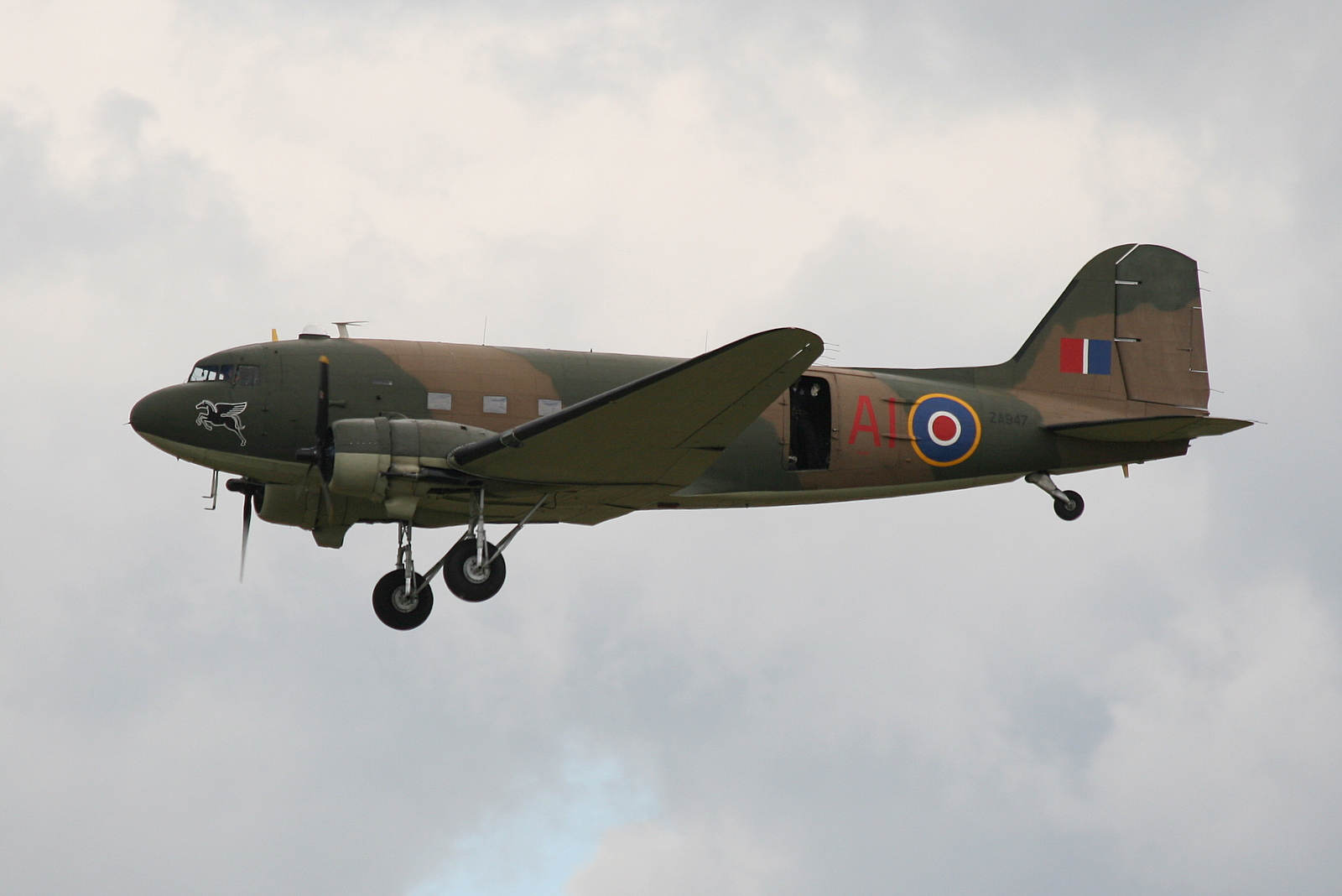 C-47A Skytrain with open hatch at the 2008 'Flying Legends' air show in Duxford, UK.